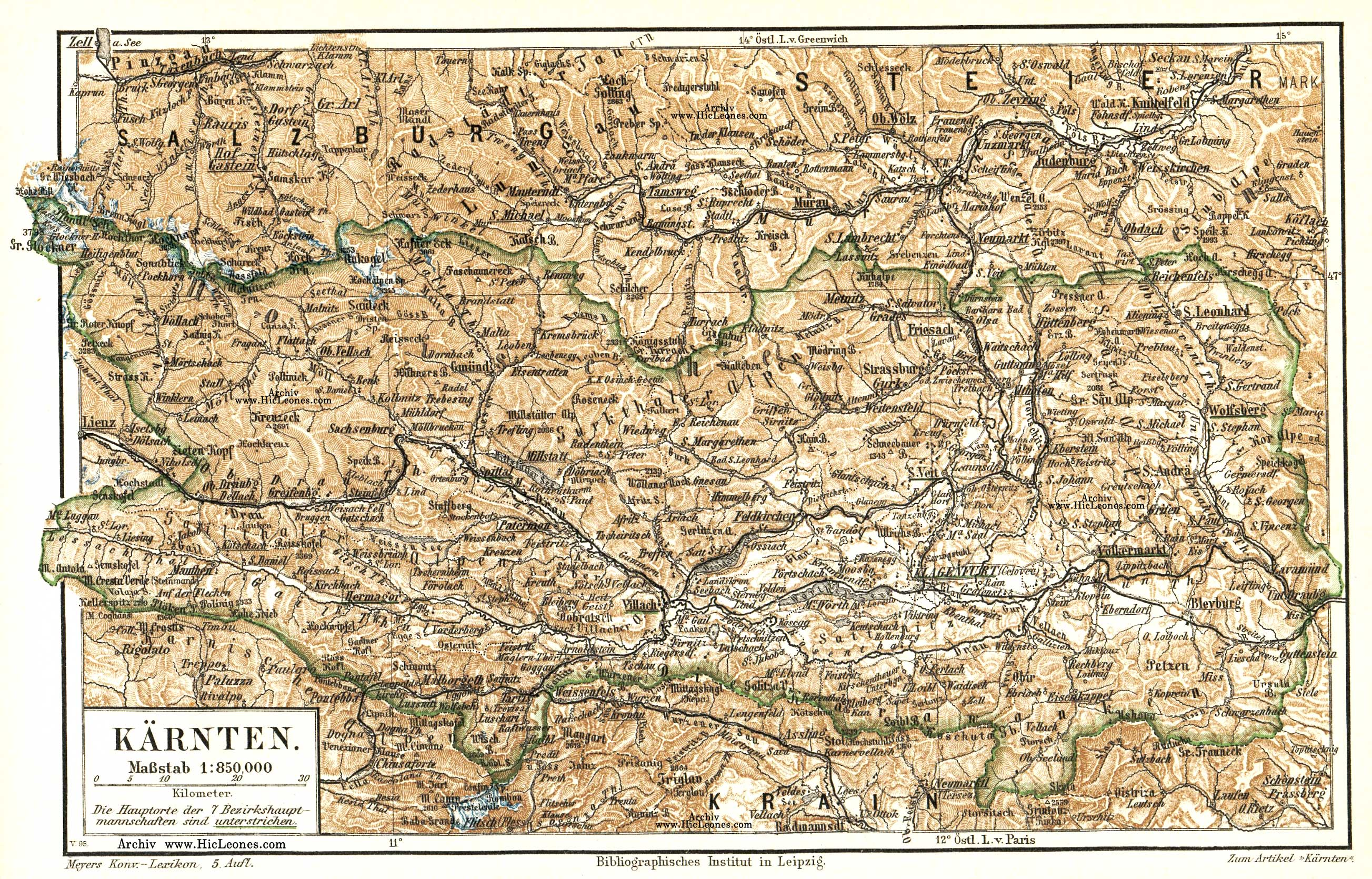 Carinthia before 1900